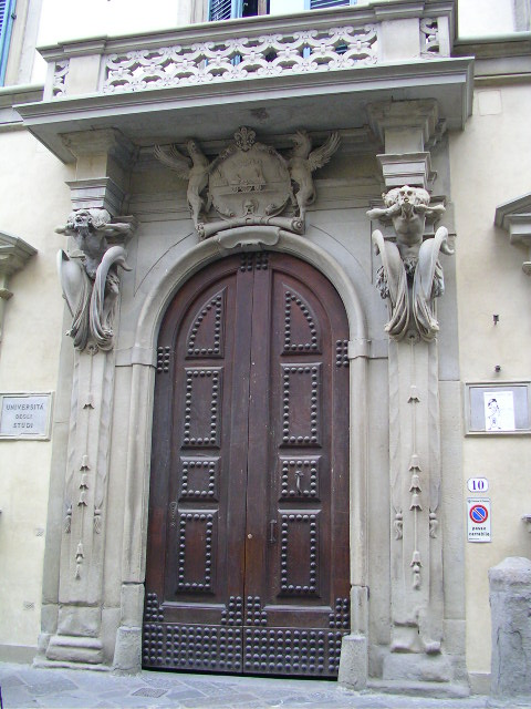 Palace in San Gallo Street detail 2 in Florence, Italy